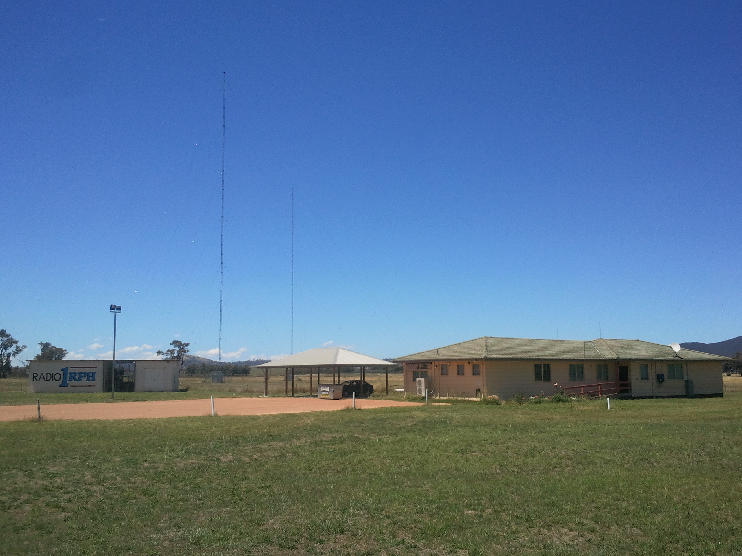 Radio 1RPH studio and transmitter complex, Barton Highway, Gungahlin, Australian Capital Territory. L-R: Transmitter building, dual masts, studio building.